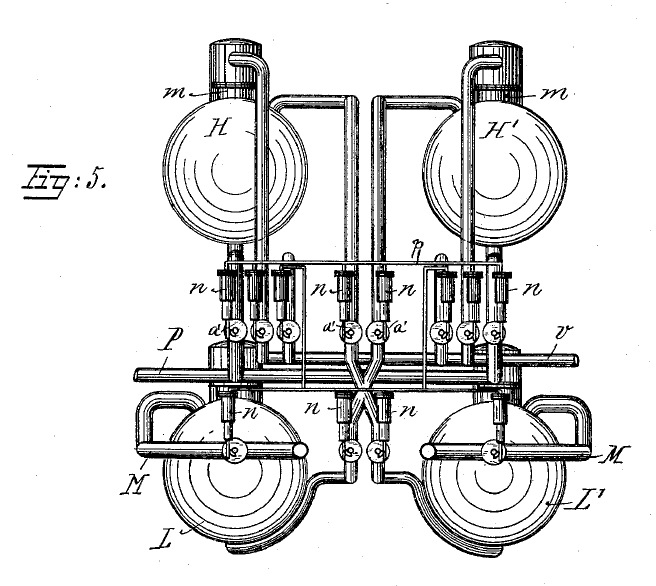 Vacuum sewerage pump diagram on a patent. "Fig. 5 is an end view of the main receiving apparatus at the pumping station."